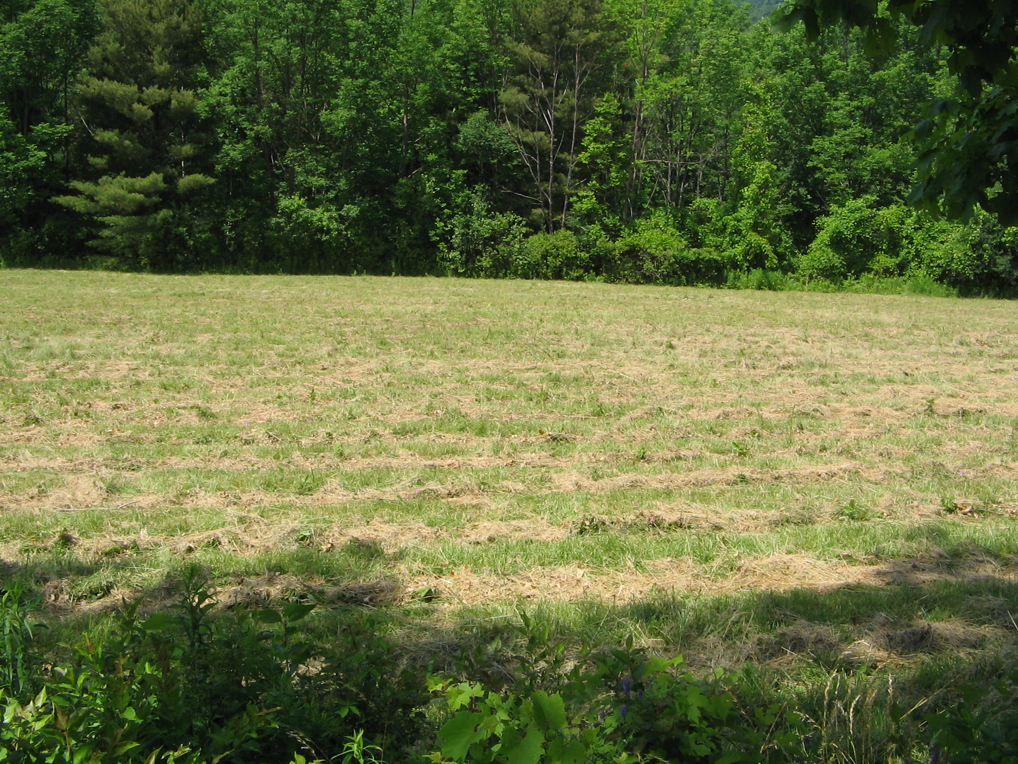 West side of Monument Hill, Hubbardton, Vermont. British forces attacked Colonial forces up this hill (towards the camera) at dawn on 7 July 1777.